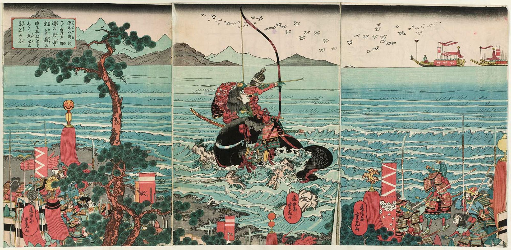 Famous episode of the Yashima battle in 1185